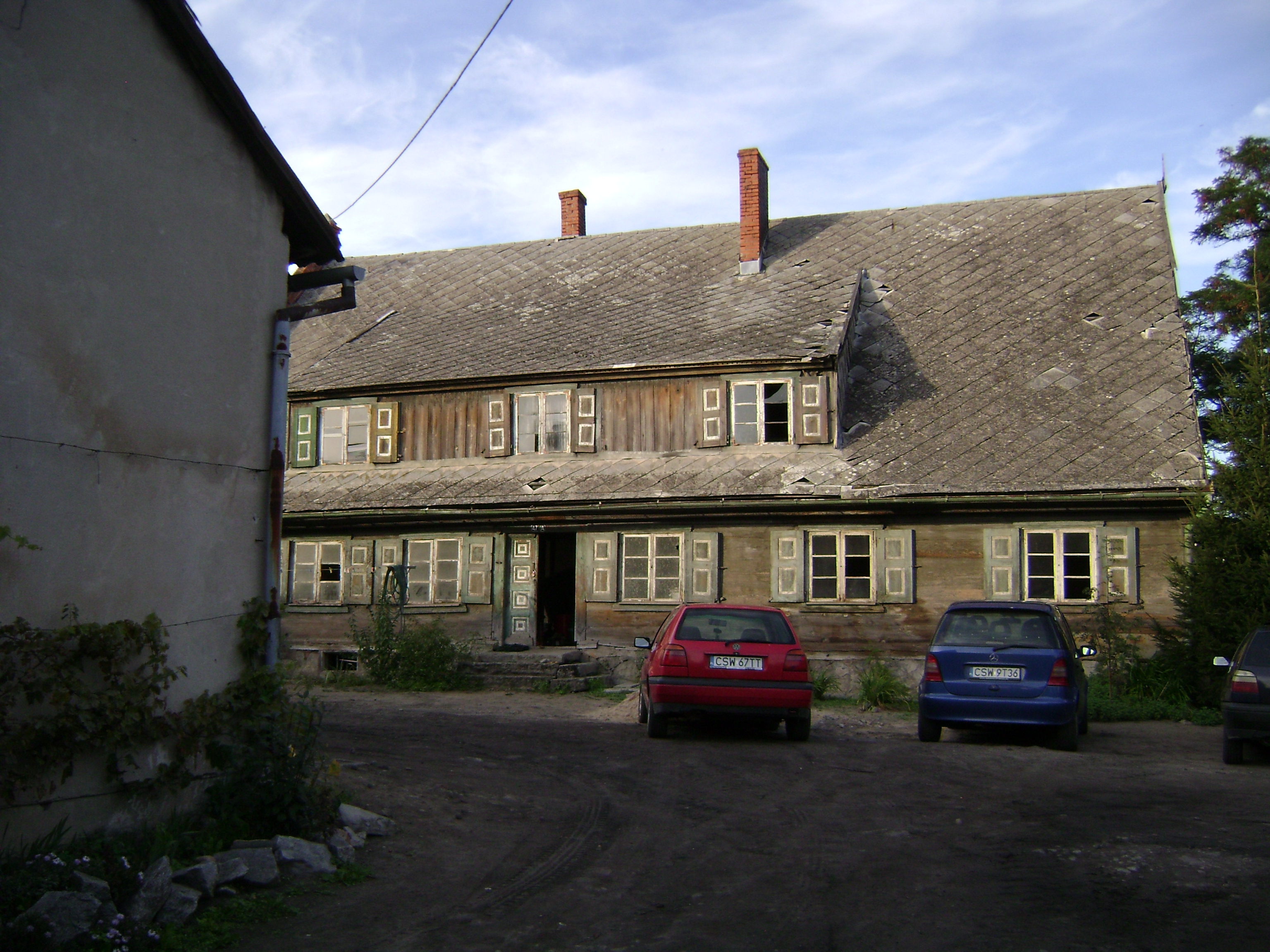 wooden cottage in Wielki Lubień, gmina Dragacz, Poland